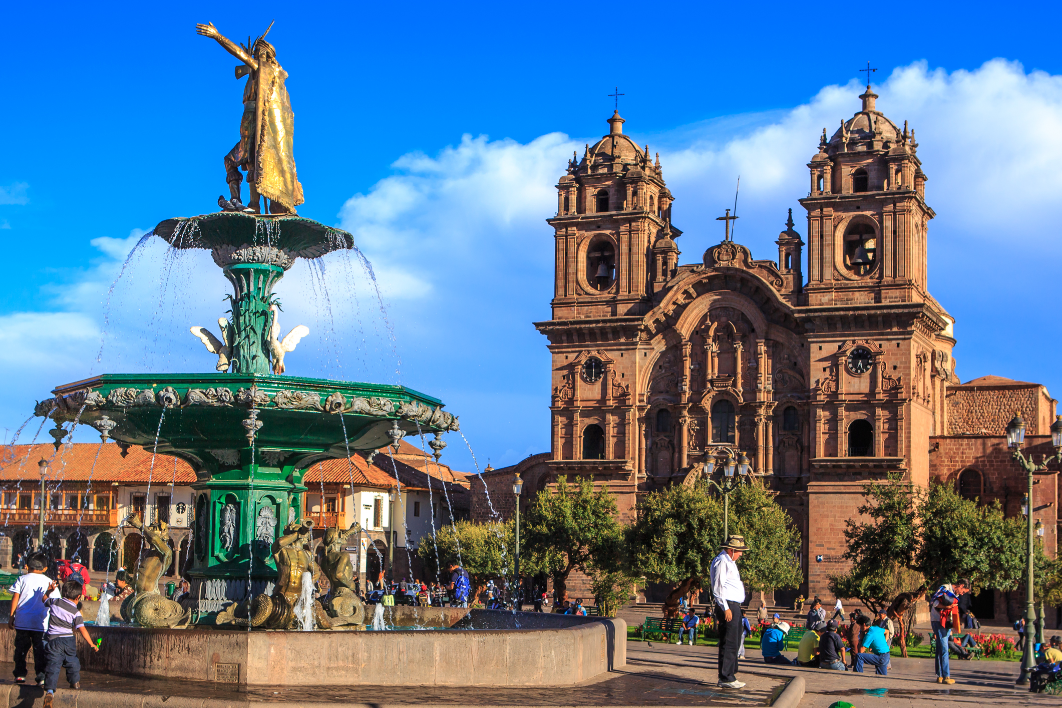 exploring Cusco…Plaza de armas, Centro Historico